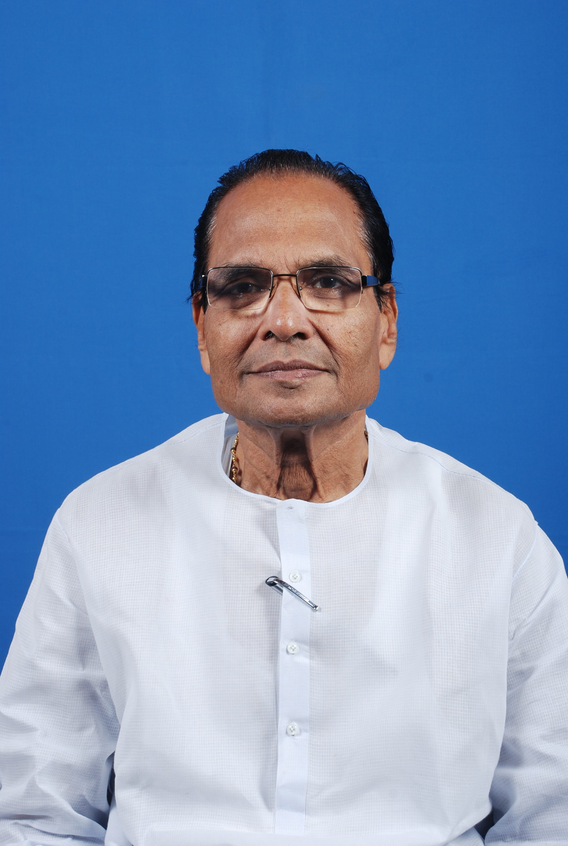 Profile photo of Bed Prakash Agarawalla